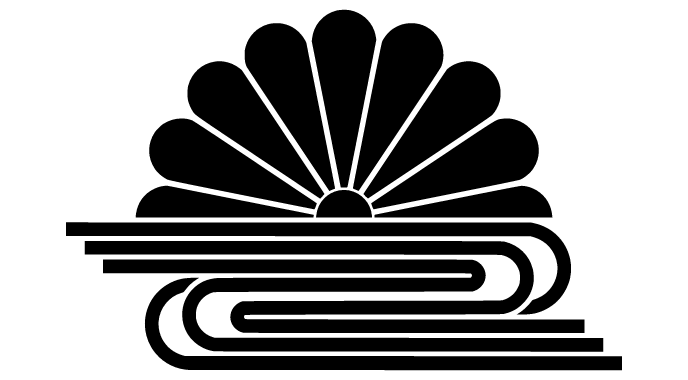 Kikusui mon